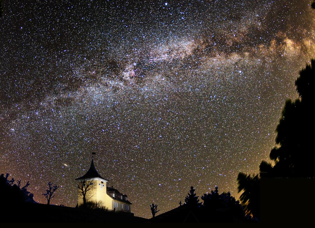 Photomontage: Glockenturm (a bellfry) of Sankt Andreasberg inserted into an image of the Milky Way (also taken in that village)